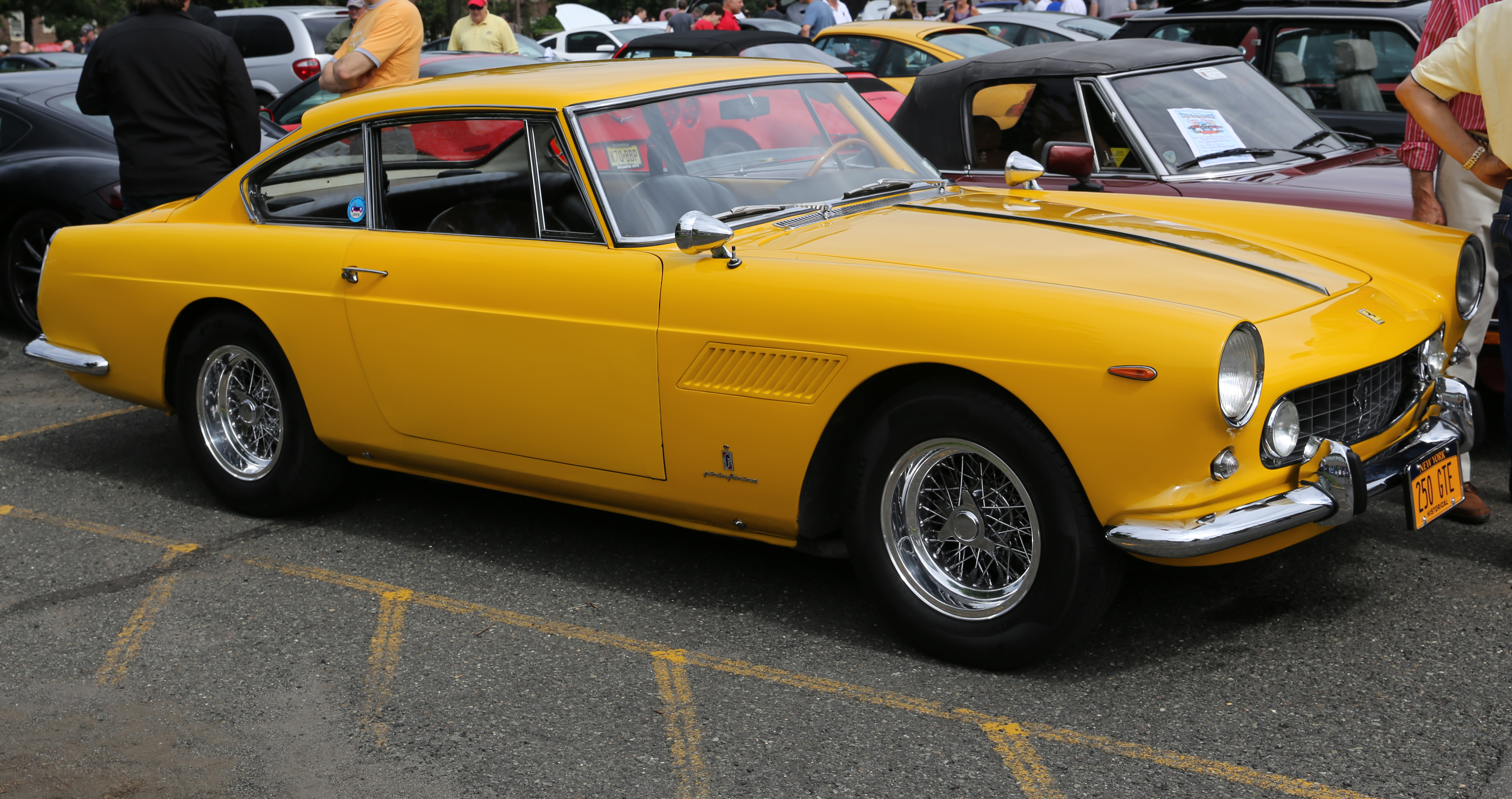 1961 Ferrari 250 GTE. This particular car was the cover car of the April 2011 issue of Hemming's Sports and Exotic Car.